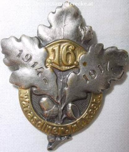 A badge from WW1: Croatian 16. inf. regiment from Varaždin